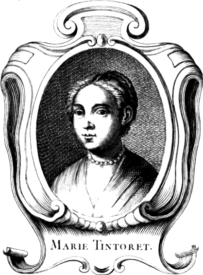 Portrait of Marietta Robusti (1554-1590), Italian painter